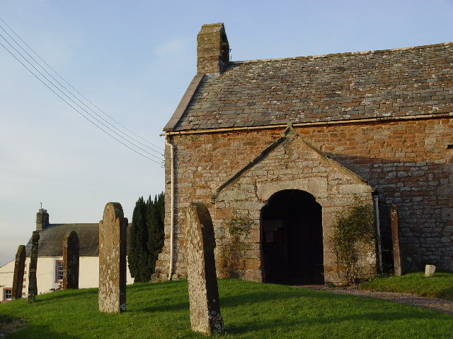 South porch of St Cuthbert's parish church, Clifton, Cumbria